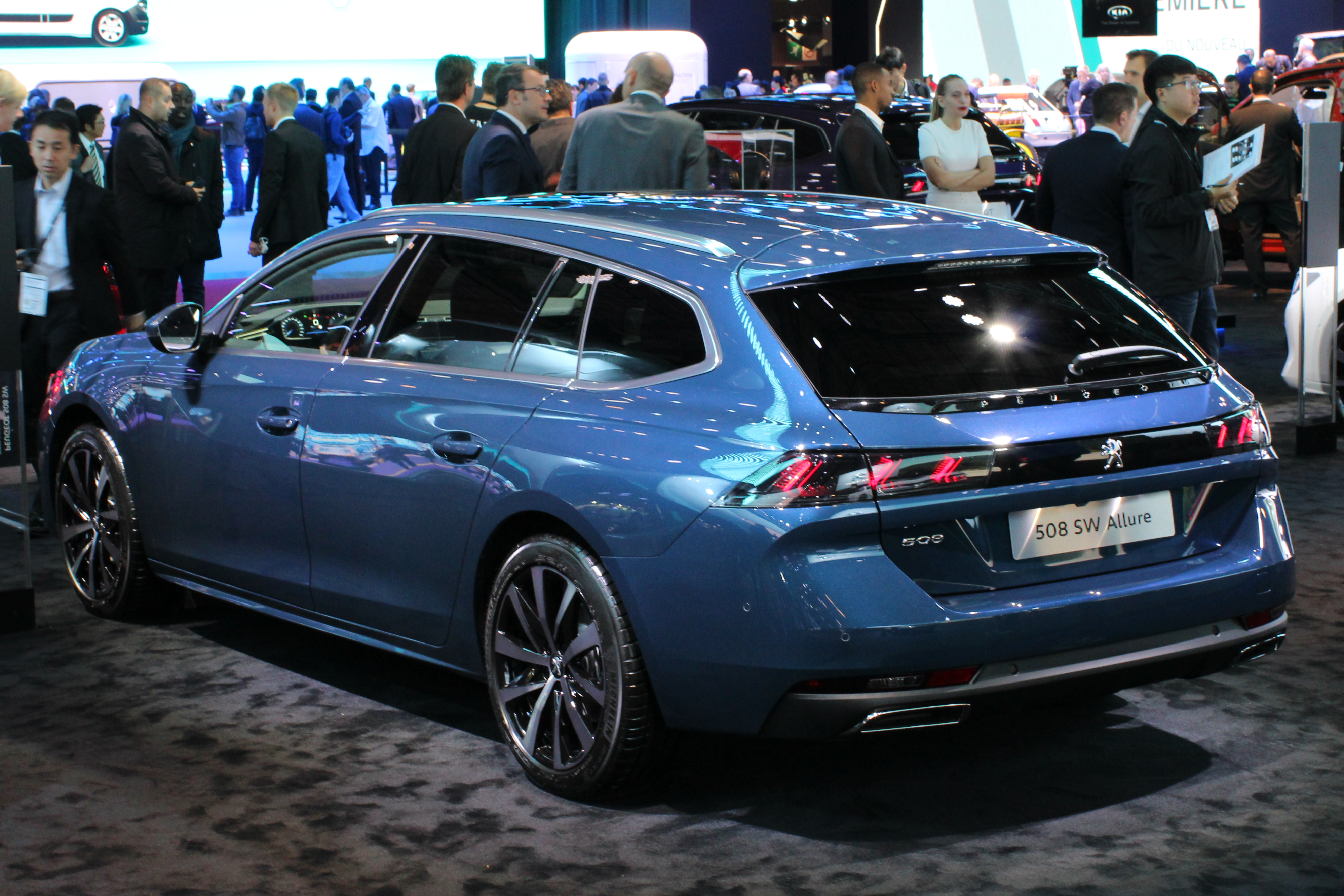 Peugeot 508 SW Allure at Paris Motor Show 2018